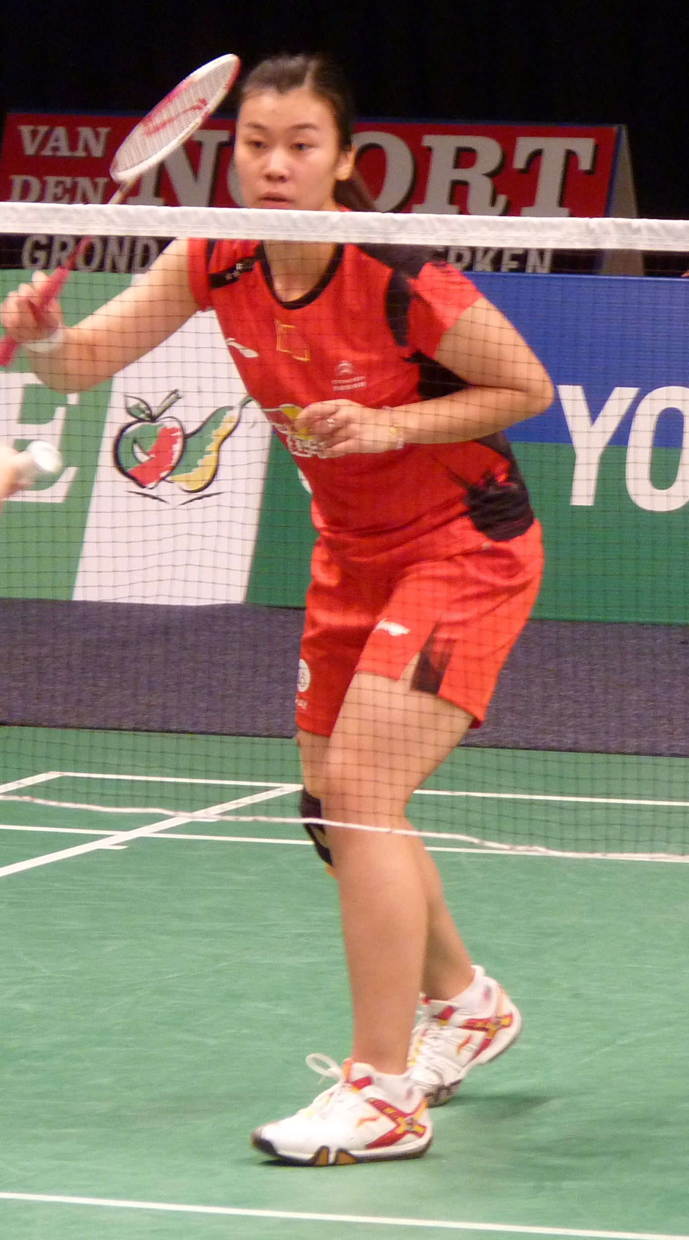 Tang Jinhua (CHINA)